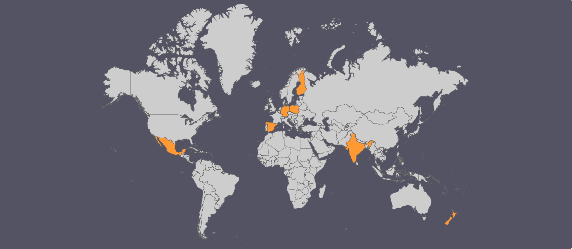 Displaying countries where the product is available